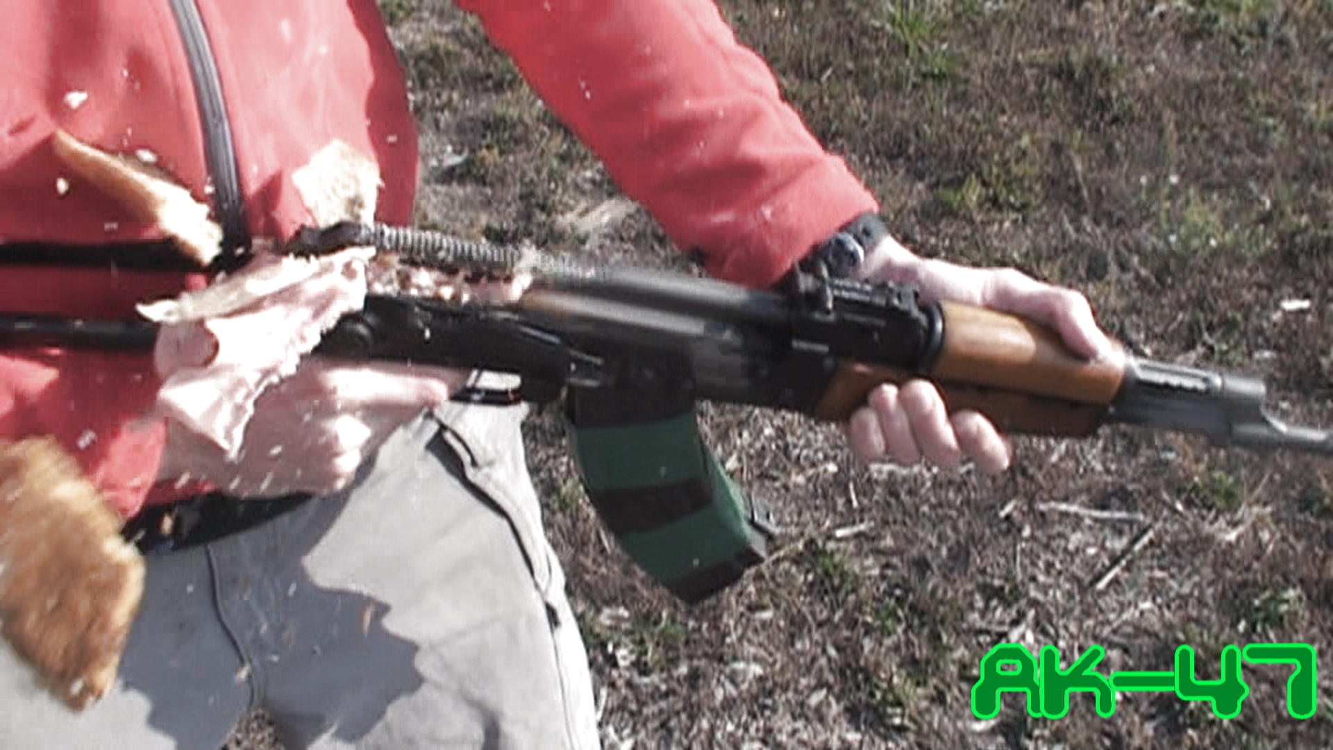 The AK-47's world renowned reliability under intense conditions is tested to its absolute limits with the placement of a ham sandwich within the receiver.